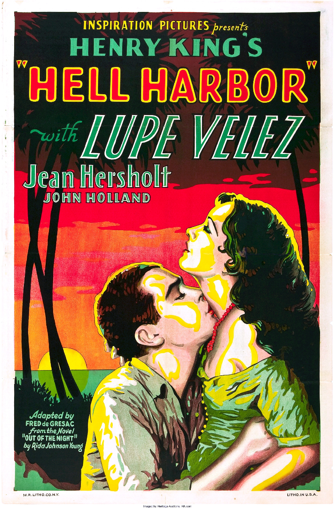 Poster for the 1930 film Hell Harbor. A renewal search was done in both film and copyright categories for the years 1957 and 1958. There were no results in either category for the title or for Inspiration Pictures. There's no evidence of continued copyright on the film or its materials.